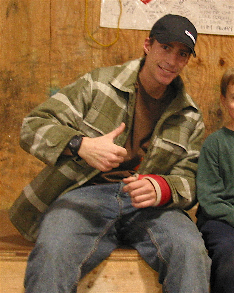 Motorsports star Travis Pastrana in his backyard workshop/skatepark near Annapolis, Md.